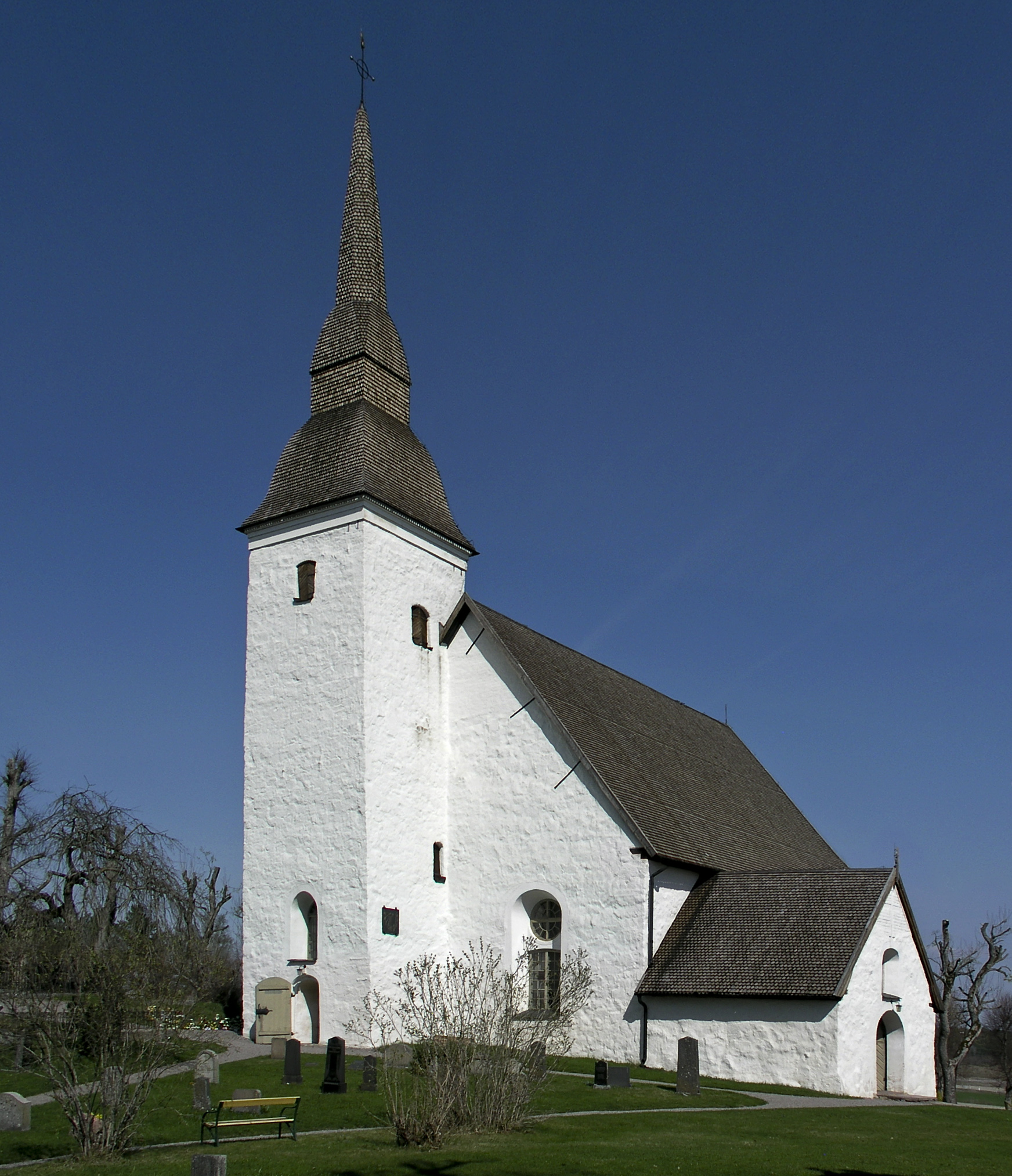 Åker Church, Diocese of Strängnäs, Sweden.